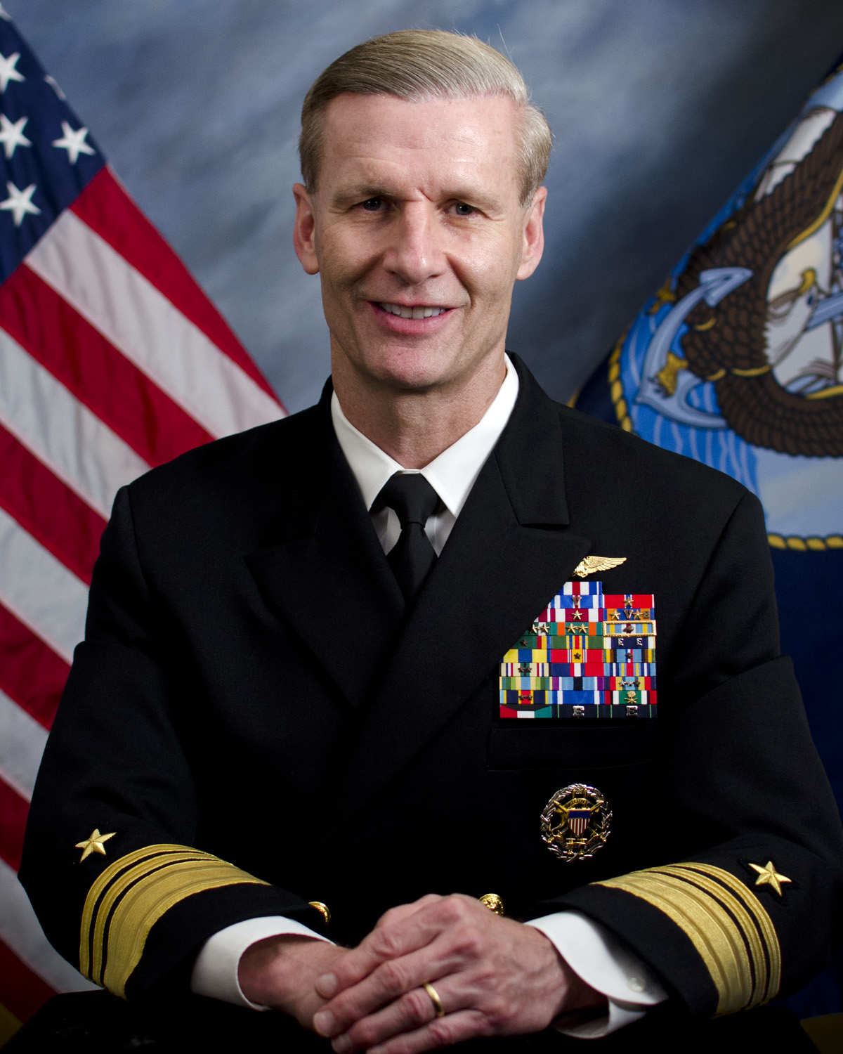 VICE ADMIRAL JOSEPH P. AUCOIN DEPUTY CHIEF OF NAVAL OPERATIONS WARFARE SYSTEMS (N9)